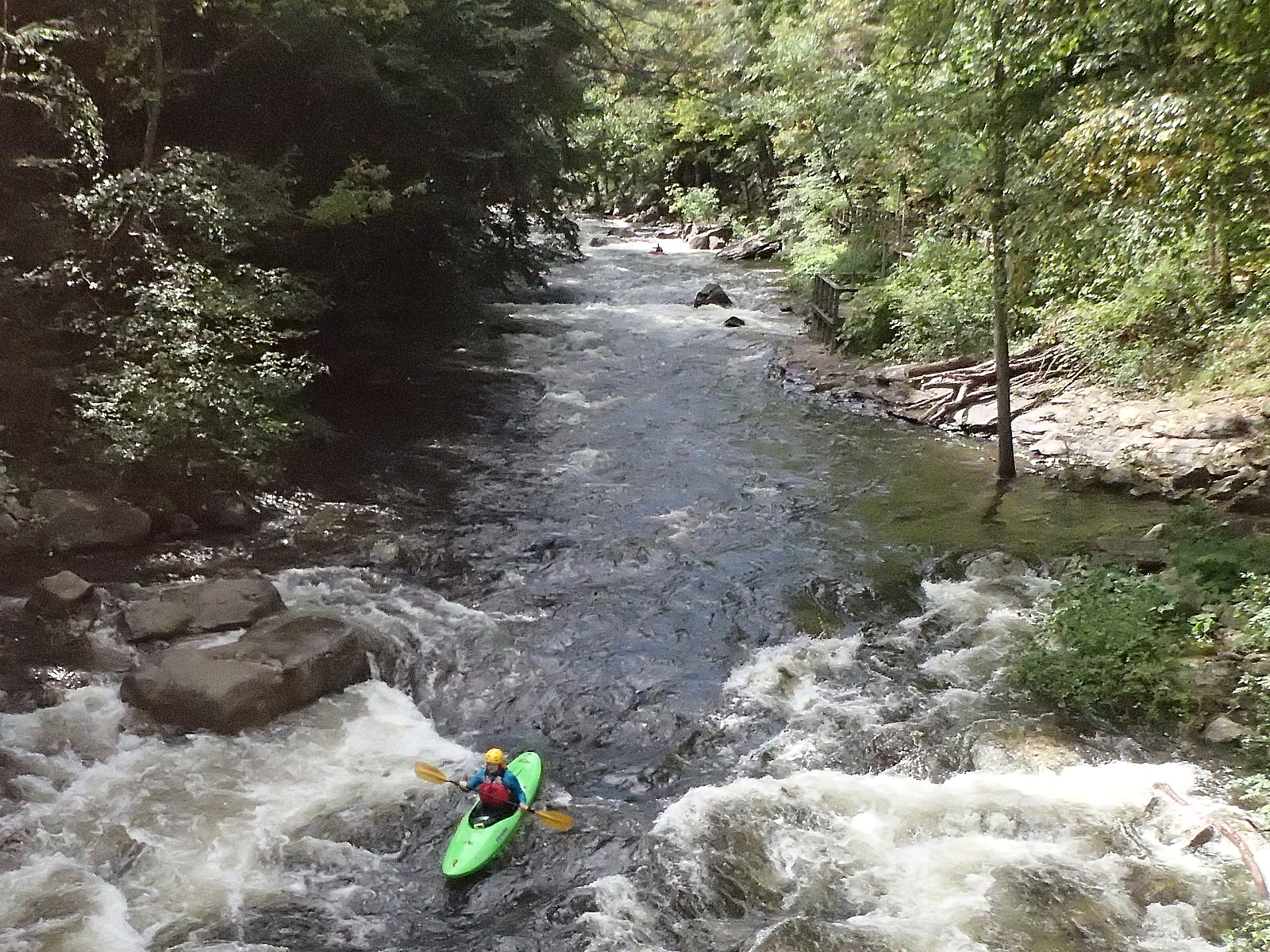 2014 Sep 7 Dam release 1000 cfs, upstream from Allegany Bridge